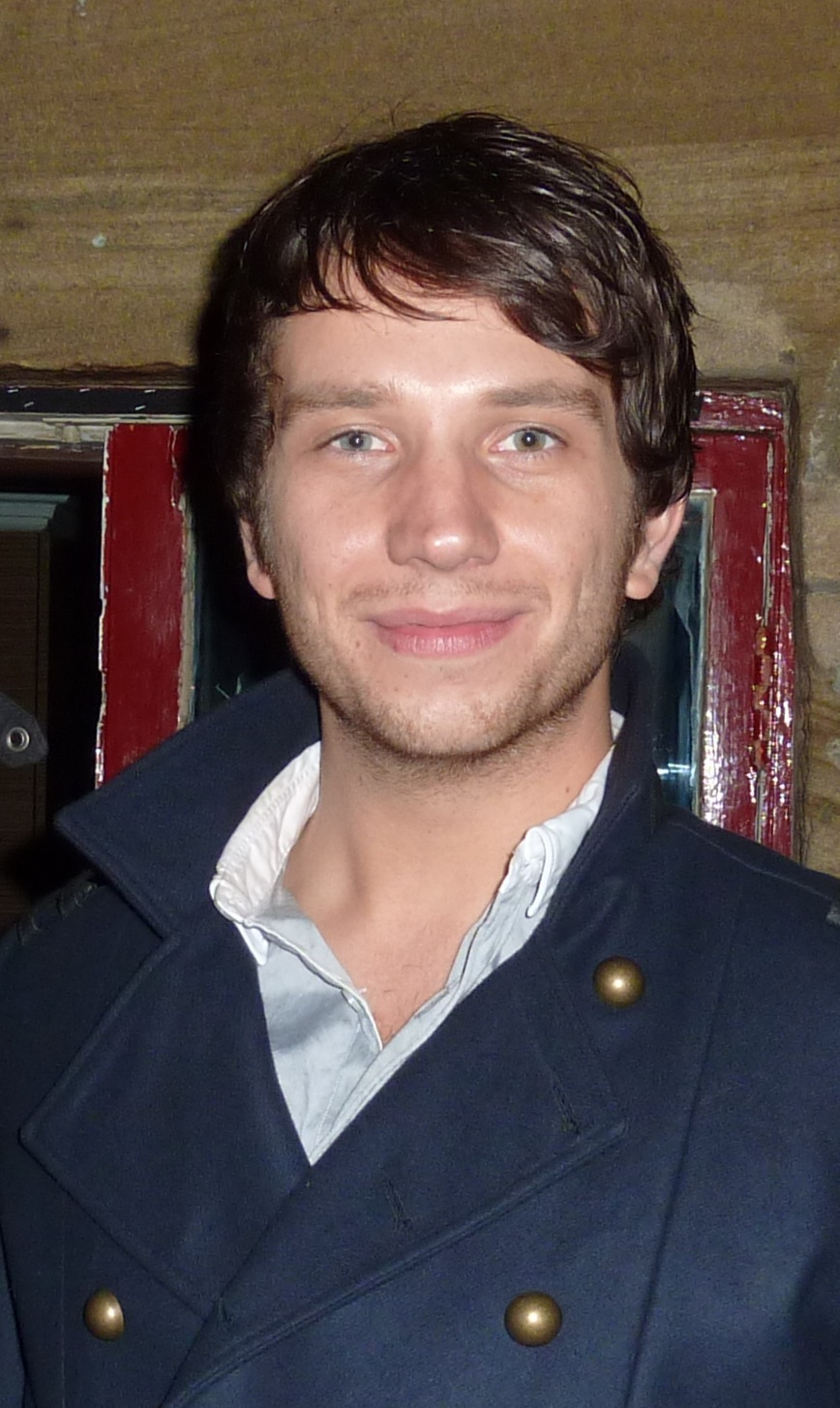 Scott Garnham at the stage door of the Queens Theatre, London